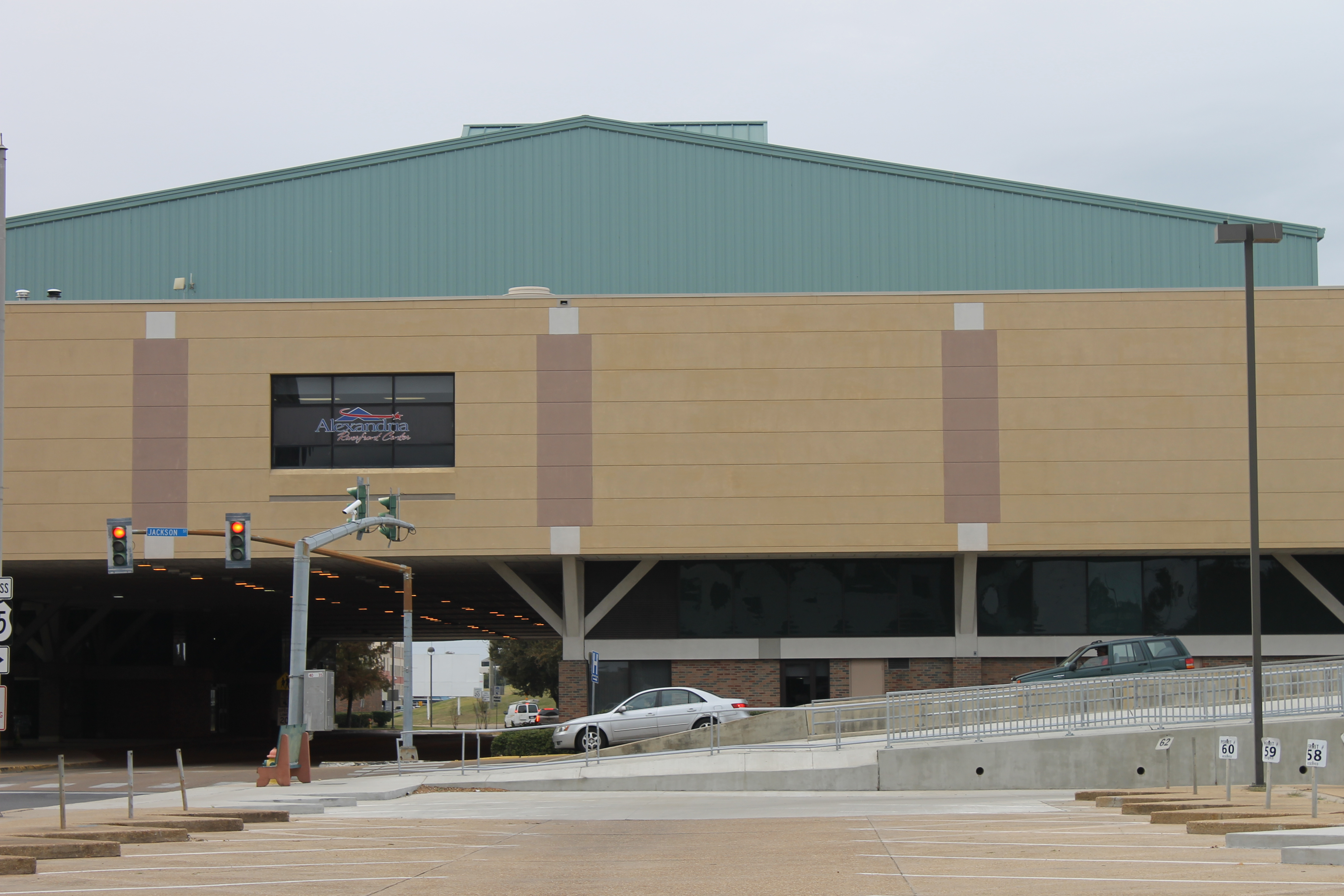 Alexandria Civic Center in Alexandria, LA